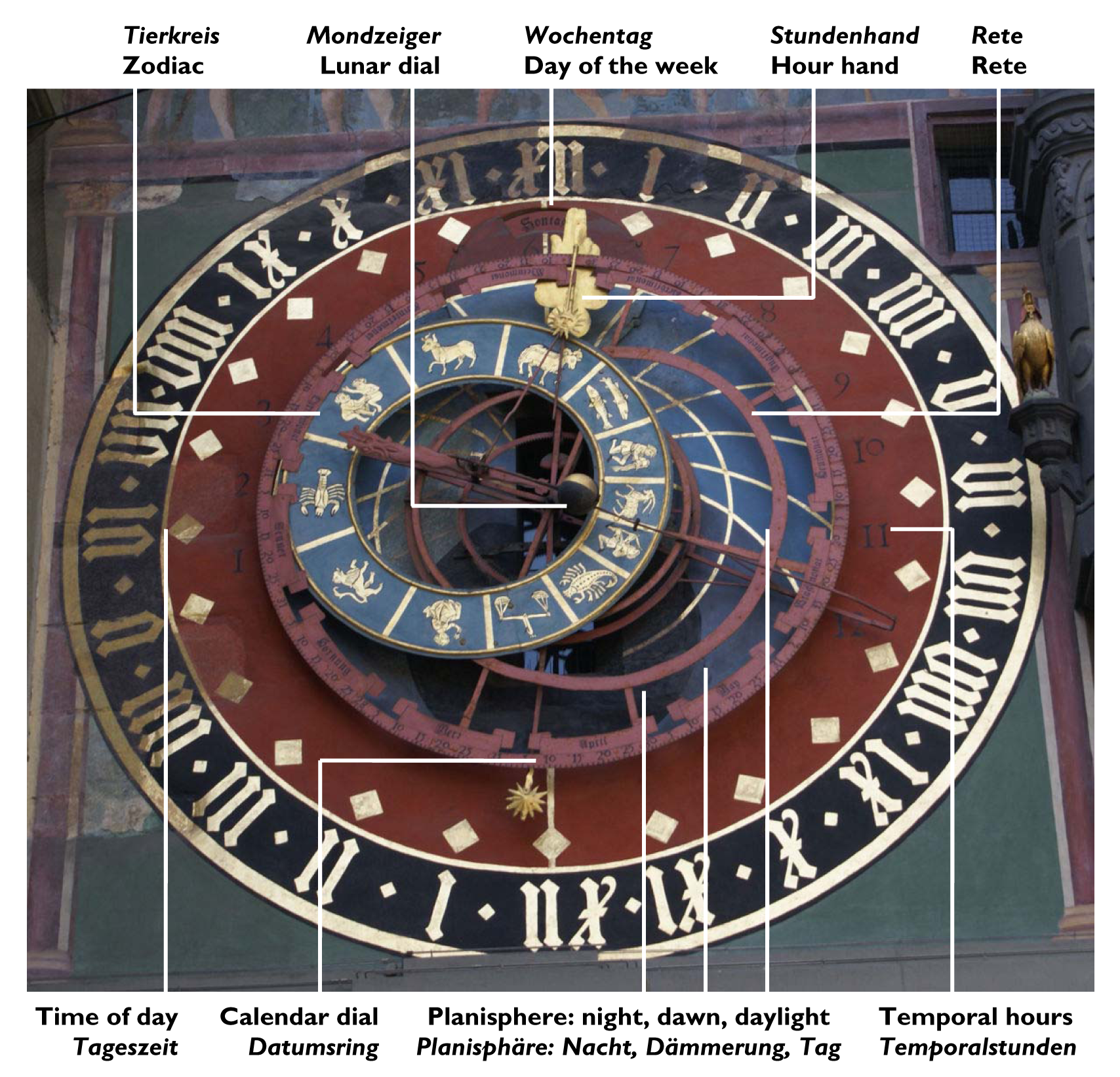 Zytglogge tower in Bern, Switzerland. Astronomical clock. Photograph with labeled parts in German and English.